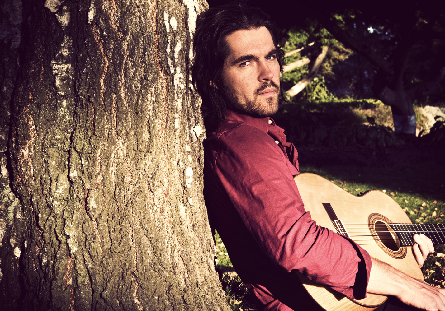 Promo Image